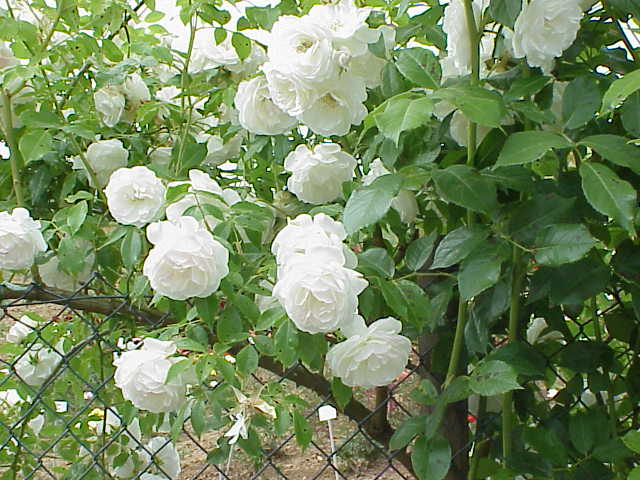 Species: Rosa sp. Family: Rosaceae Cultivar: Climbing Schneewittchen Image No. 76